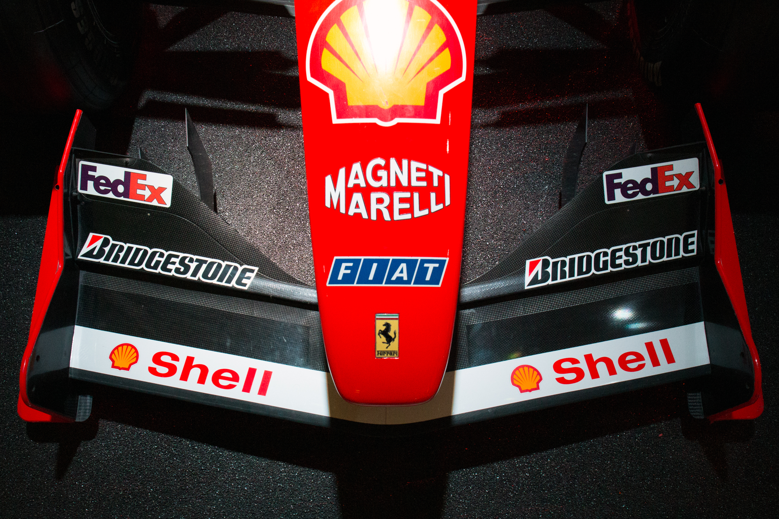 Ferrari F399's front wing